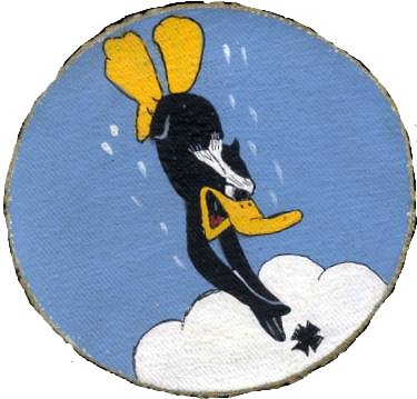 AAF Navigator School Selman Field, Louisiana-Patch